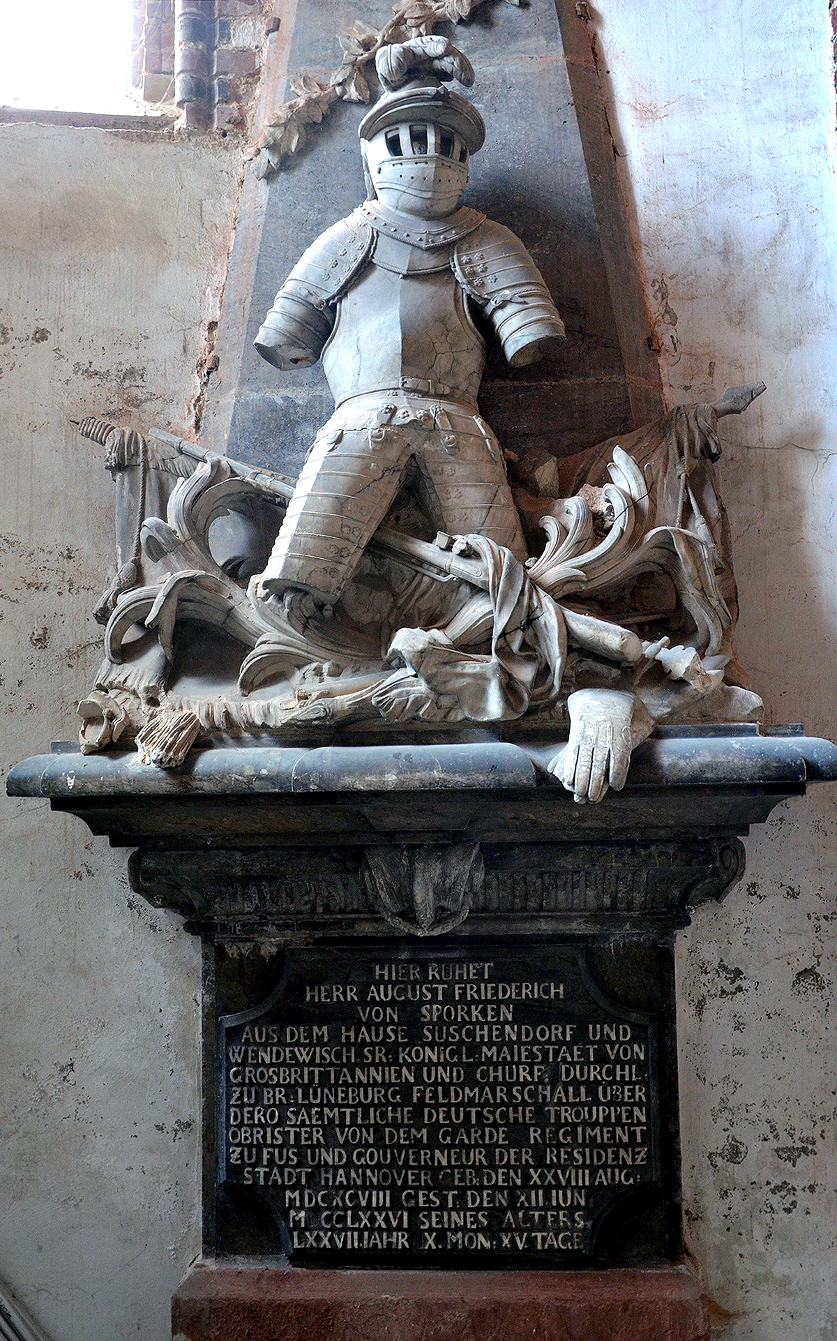 August Friedrich von Spörcken ...